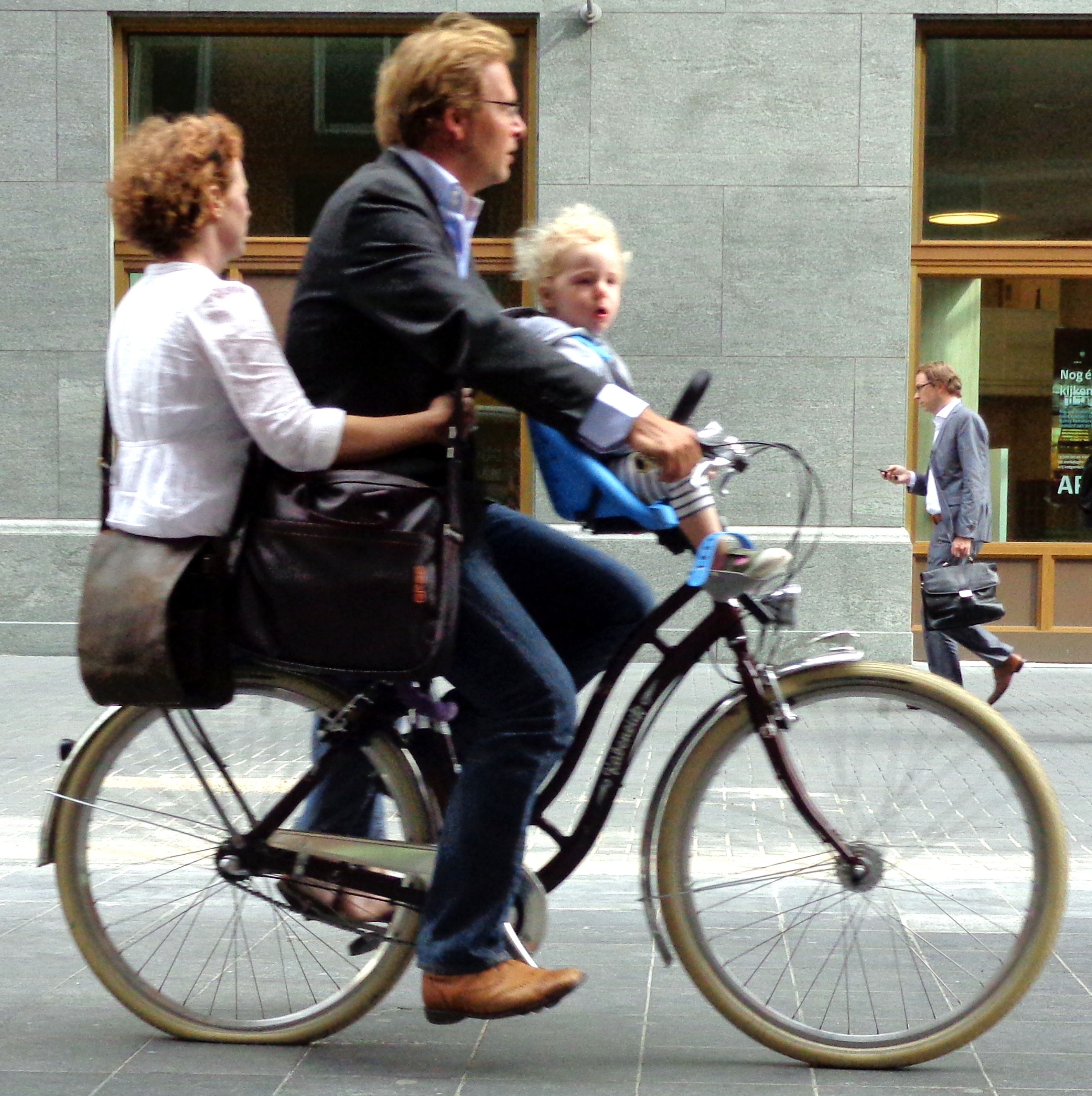 Bicycle in The Hague city-centre. Very important: if any of the persons in this photo would like not to be presented in this photo, even considering I published freely in Wikimedia for educational purposes, kindly let me know, that I would remove the photo immediately .